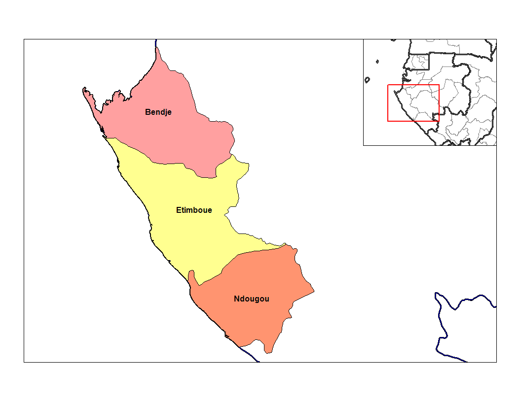 Map of the departments of Ogooue-Maritime province in Gabon. Created by Rarelibra 20:23, 2 January 2007 (UTC) for public domain use, using MapInfo Professional v8.5 and various mapping resources.